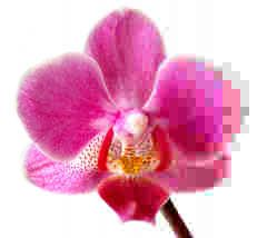 A picture of a flower (Phalaenopsis_(aka).jpg by André Karwath) compressed with successively higher loss JPEG compression ratios from left to right.